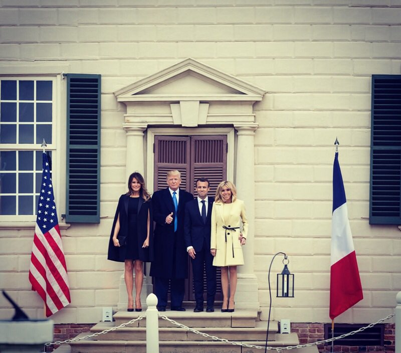 Welcome to the @WhiteHouse President @EmmanuelMacron and Mrs. Macron